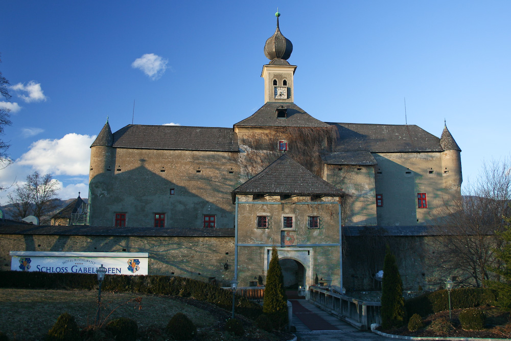 Castle Gabelhofen in the near of the thermal spa Aqualux